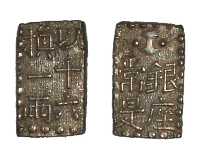 Bunsei-nanryo-1shu